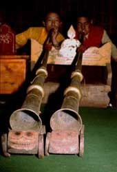 Tibetan Monks in a monastery in Kham, Foto: A. gruschke